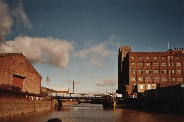 Sculcoates Bridge from the river